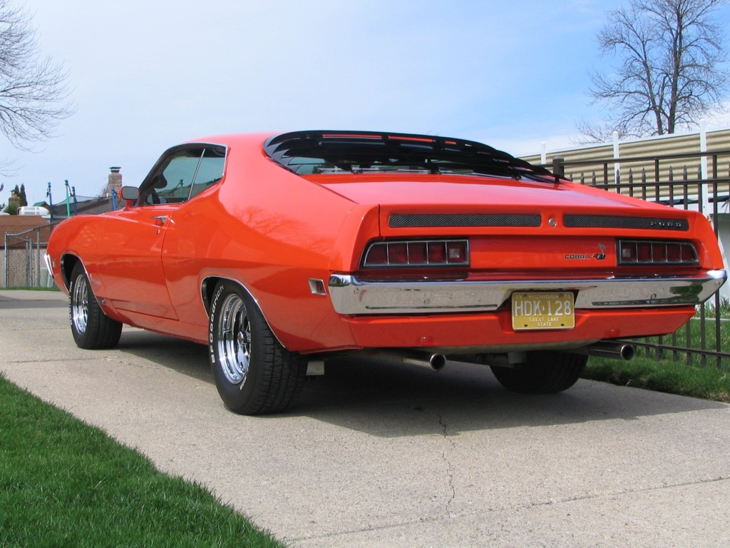 This is a photograph taken by Michael Chiolero of his own vehicle and he granted permission for this photo to be used under the following license.